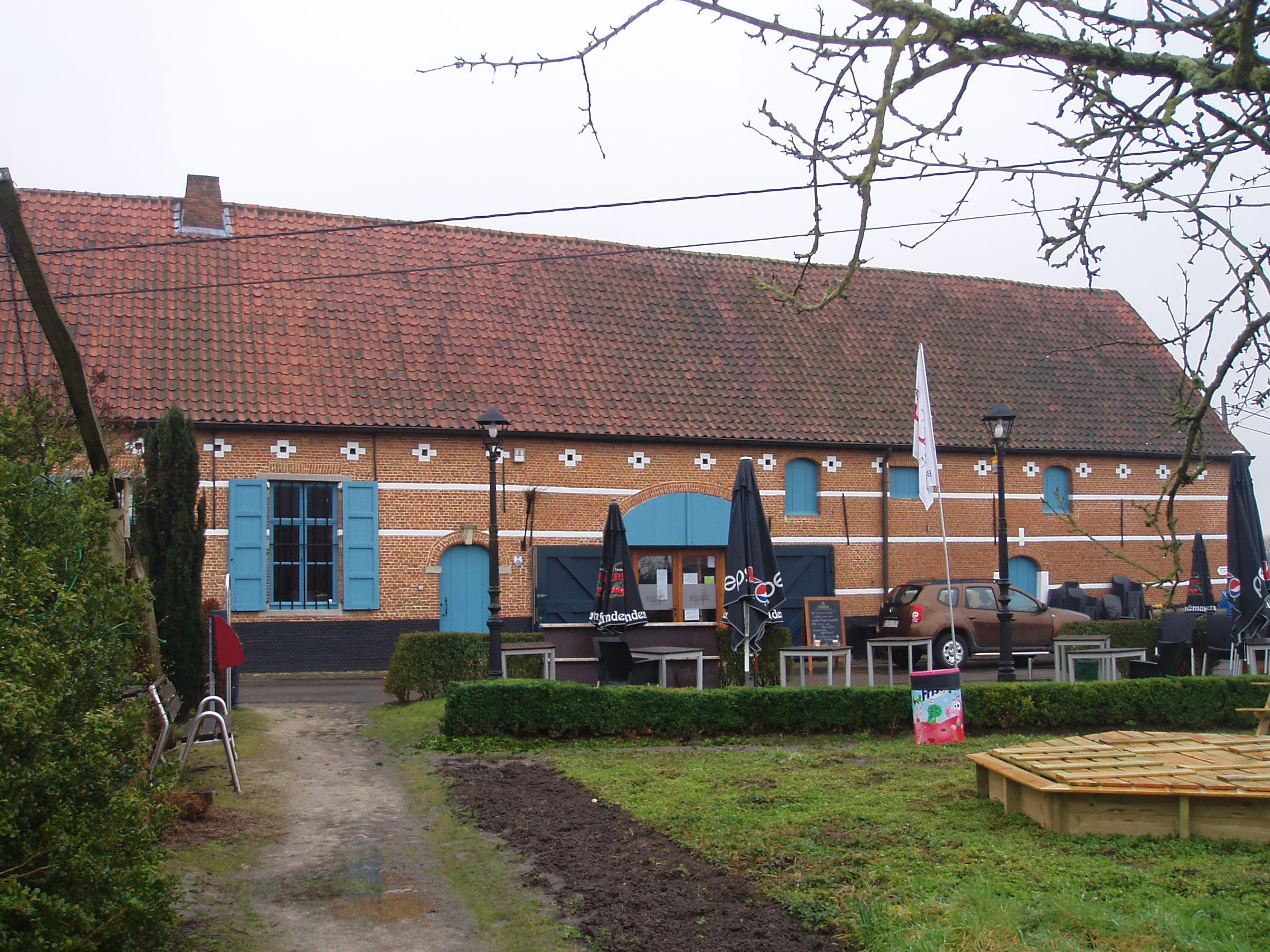 Sint-Katelijne-Waver Midzeelhoeve I